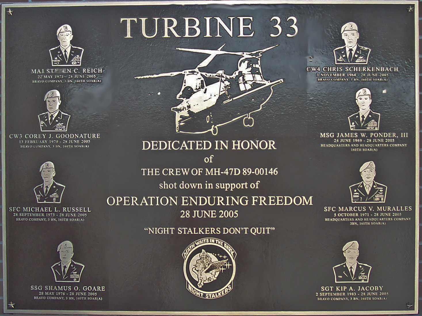 Operation Red Wing plaque.